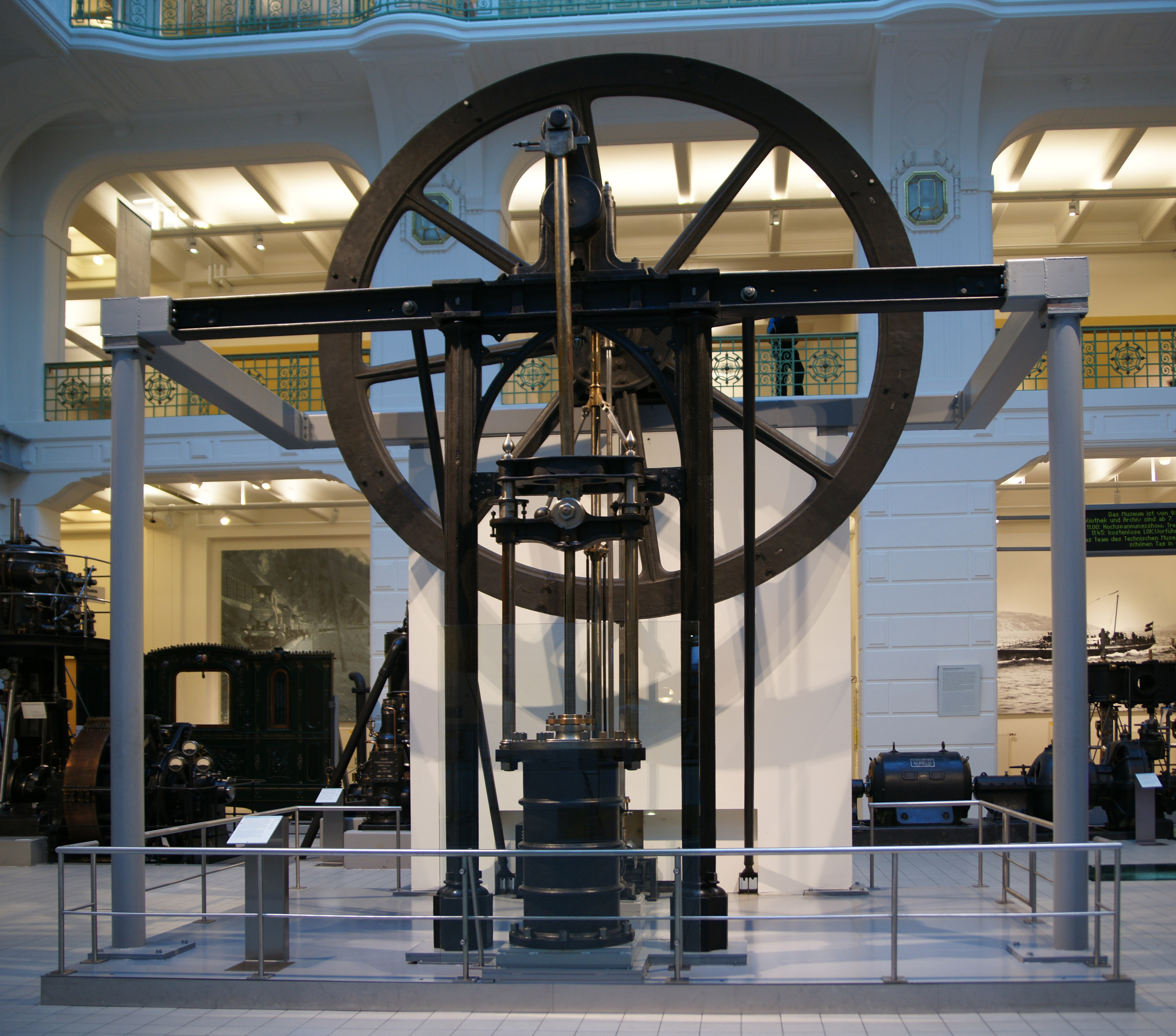 Single-cylinder vertical steam engine, built 1856 by Vinzenz Prick, Wien, for the Dreher'sche Brauerei, Klein-Schwechat. Power ca. 25.65 kw, rotational speed 28 rpm, stroke 950 mm, cylinder bore 470 mm.